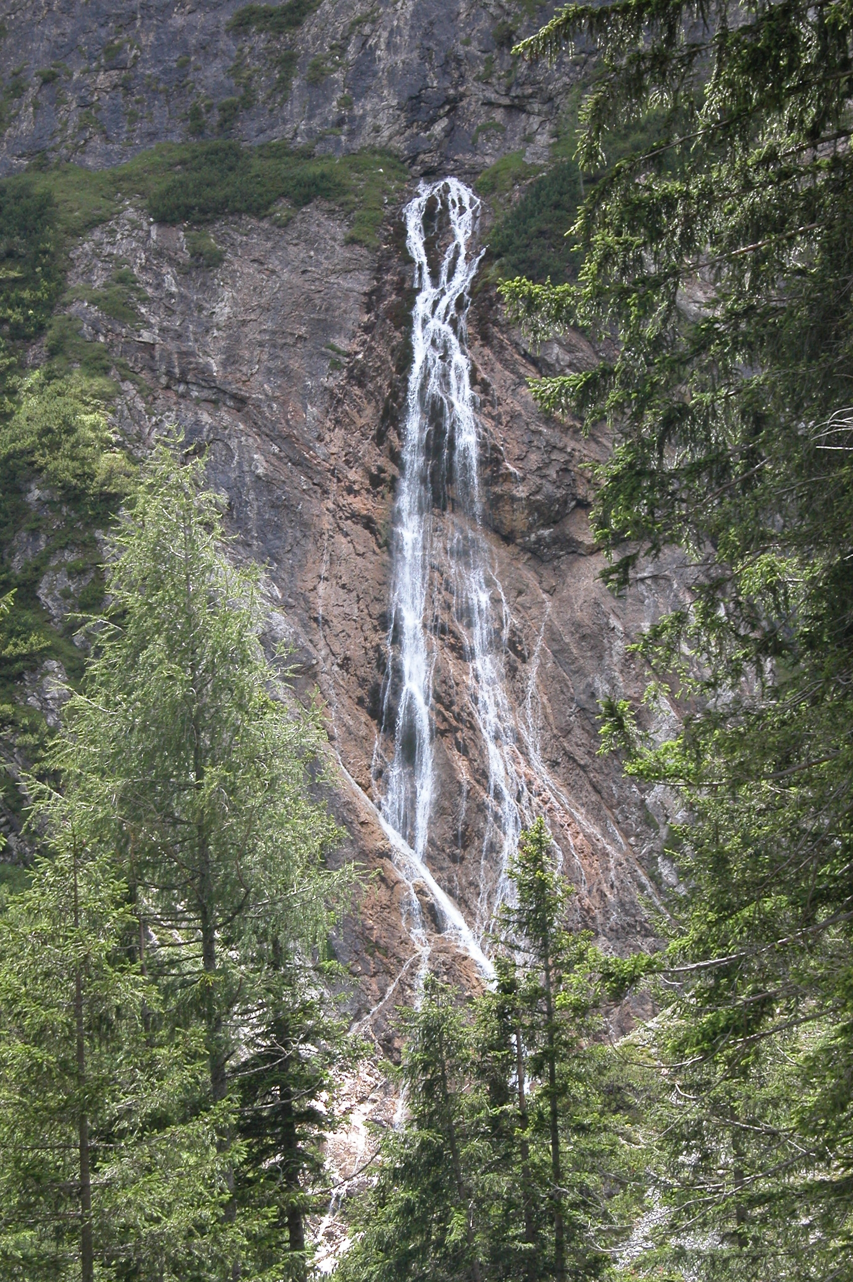 Brunnwand sources - Riedingtal, Zederhaus, Salzburg State, Austria